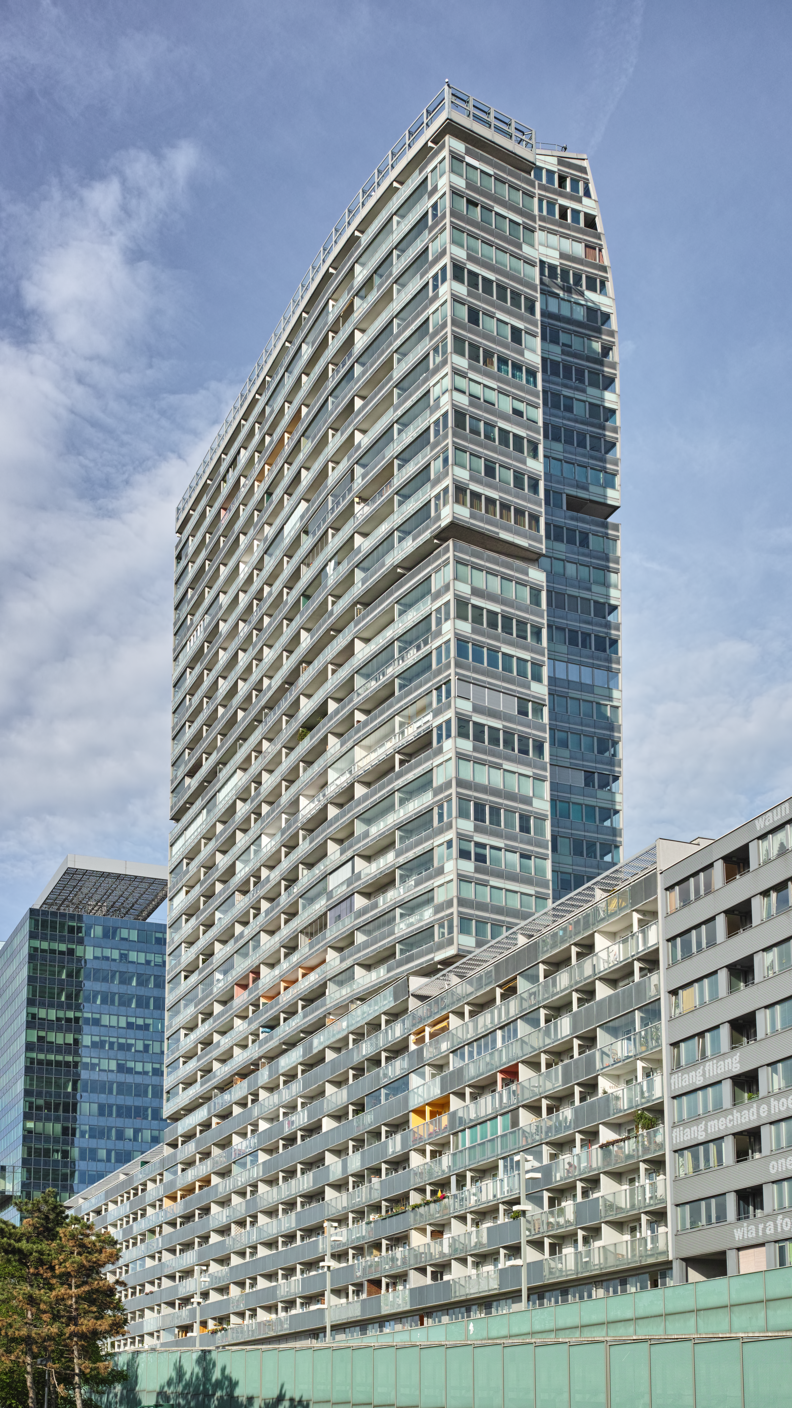 The Mischek Tower in the Donau City in Vienna, Austria seen from the West, on June 14, 2013.